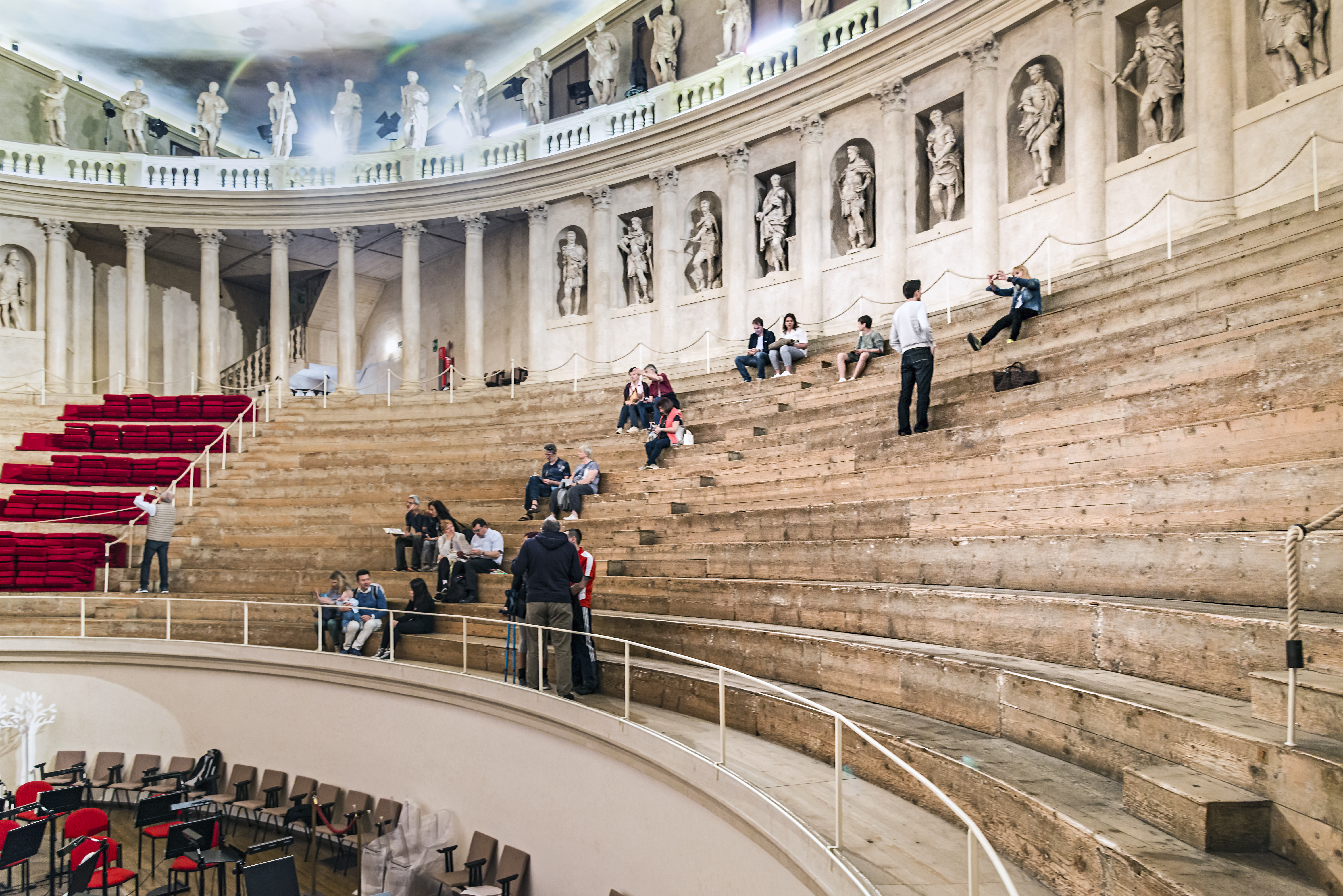 Teatro Olimpico. Theater located in Vicenza, designed in 1580 by the architect of the Renaissance Andrea Palladio. It is generally considered the first permanent covered theater of modern times. View of the hall and the bleachers.